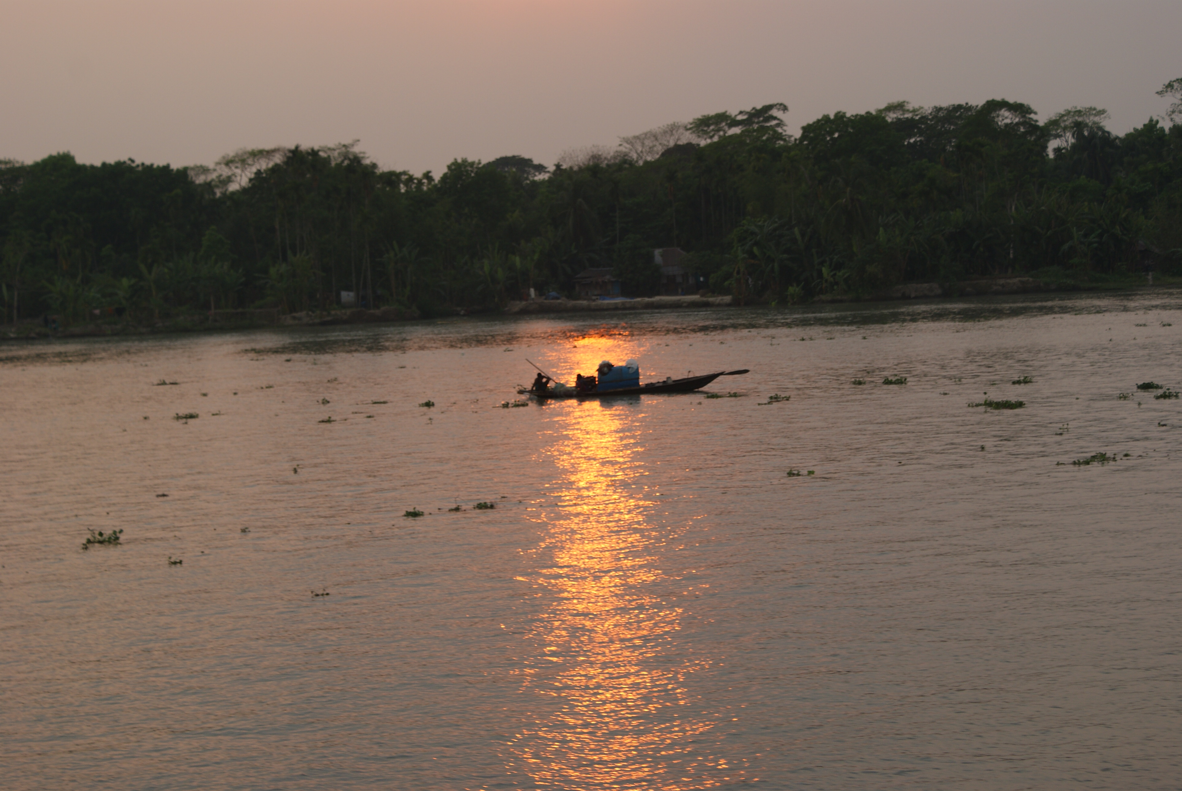 Fishing in the River Sandha, Banripara, Barisal